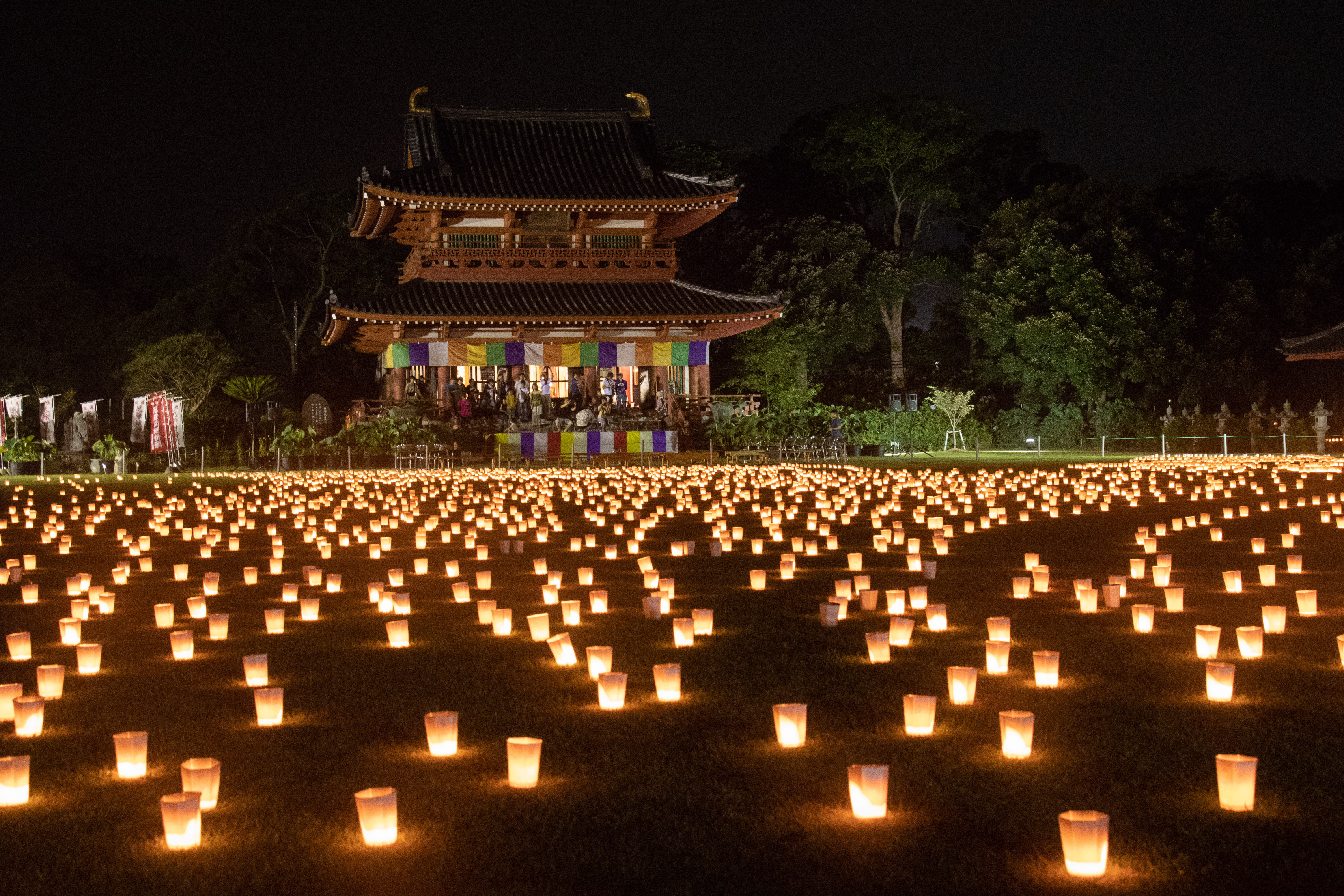 Mantoue Festival(万燈会) in Cho-onji(潮音寺), Itako City, Ibaraki Pref., Japan